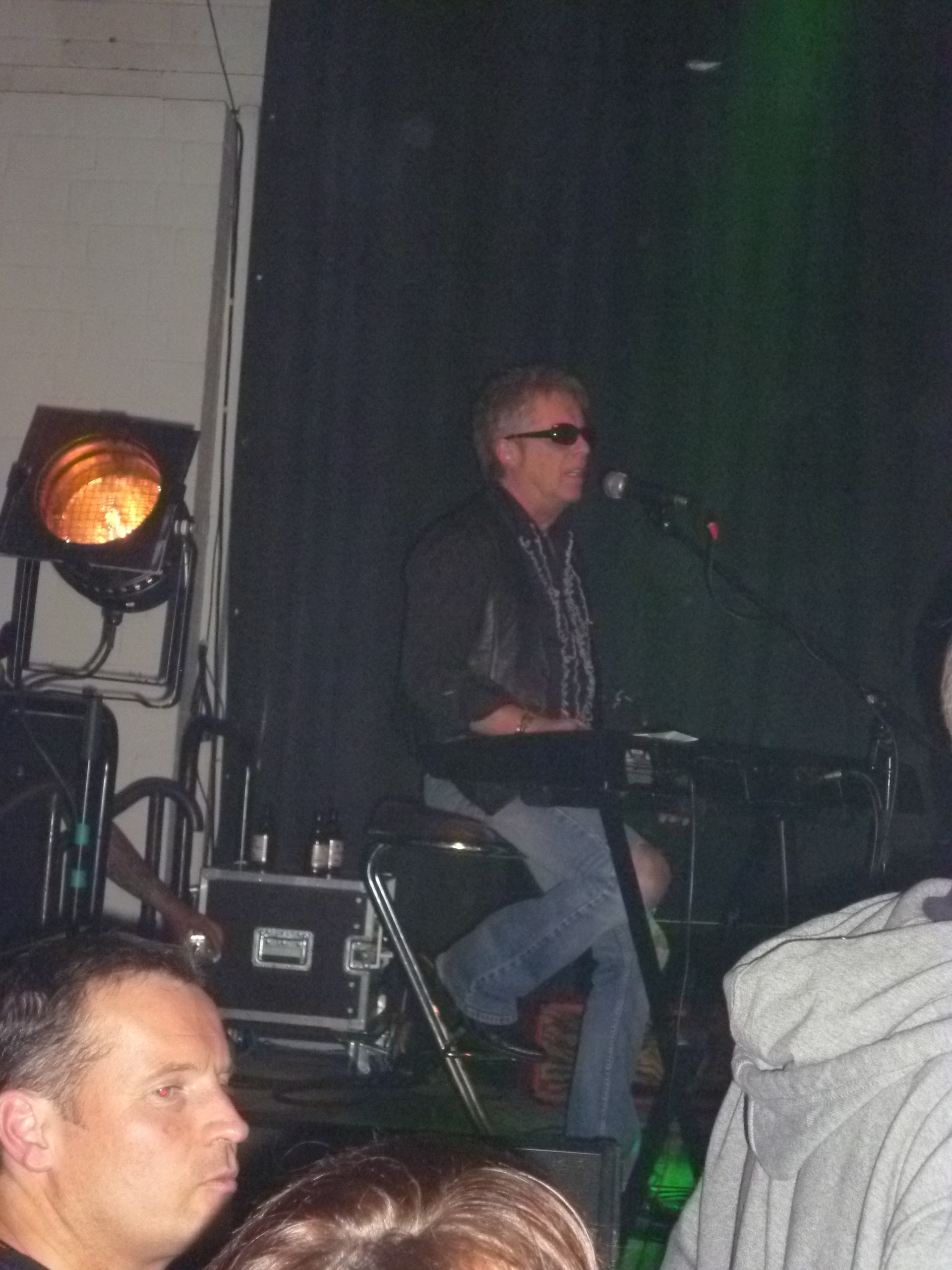 Casino Steel with The Boys live in Düsseldorf (Zakk)